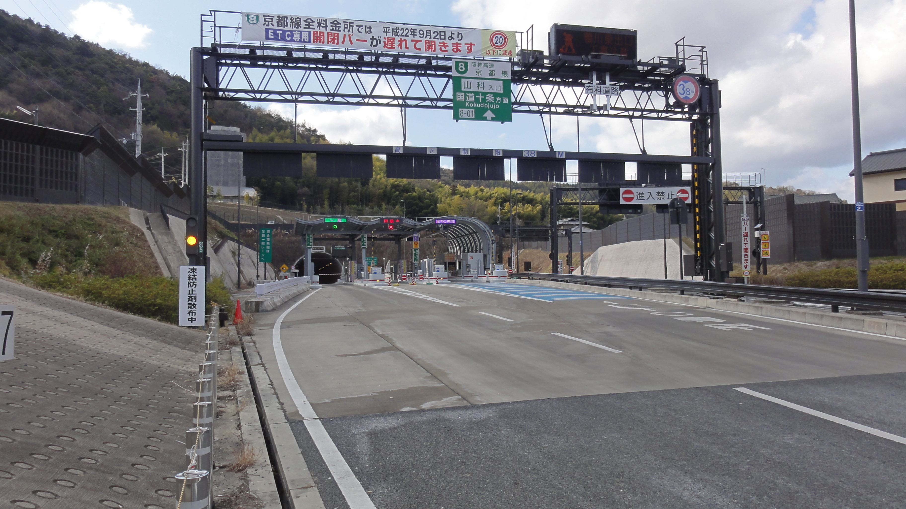 Yamashina Half-InterChange,Kyoto Prefecture, Japan